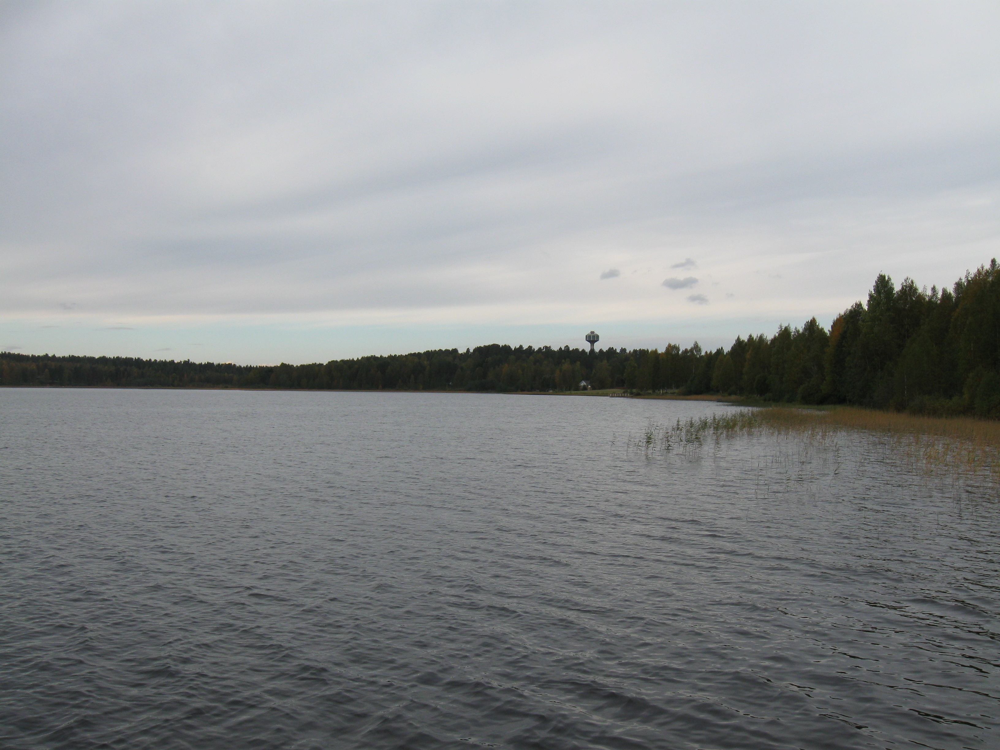 The lake Puolankajärvi close to the centre of the Puolanka municipality, Finland.